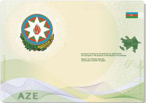 The first page